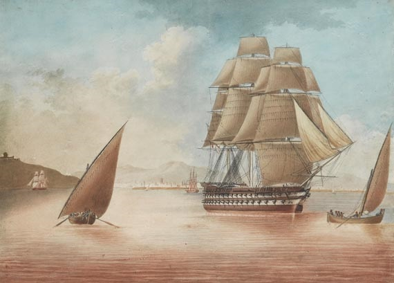 HMS "Rodney" going out of Barcelona 1837, 1837 by Nicolas S. Cammillieri Medium: watercolour on cardboard Size: 47 x 59.5 cm. (18.5 x 23.4 in.)